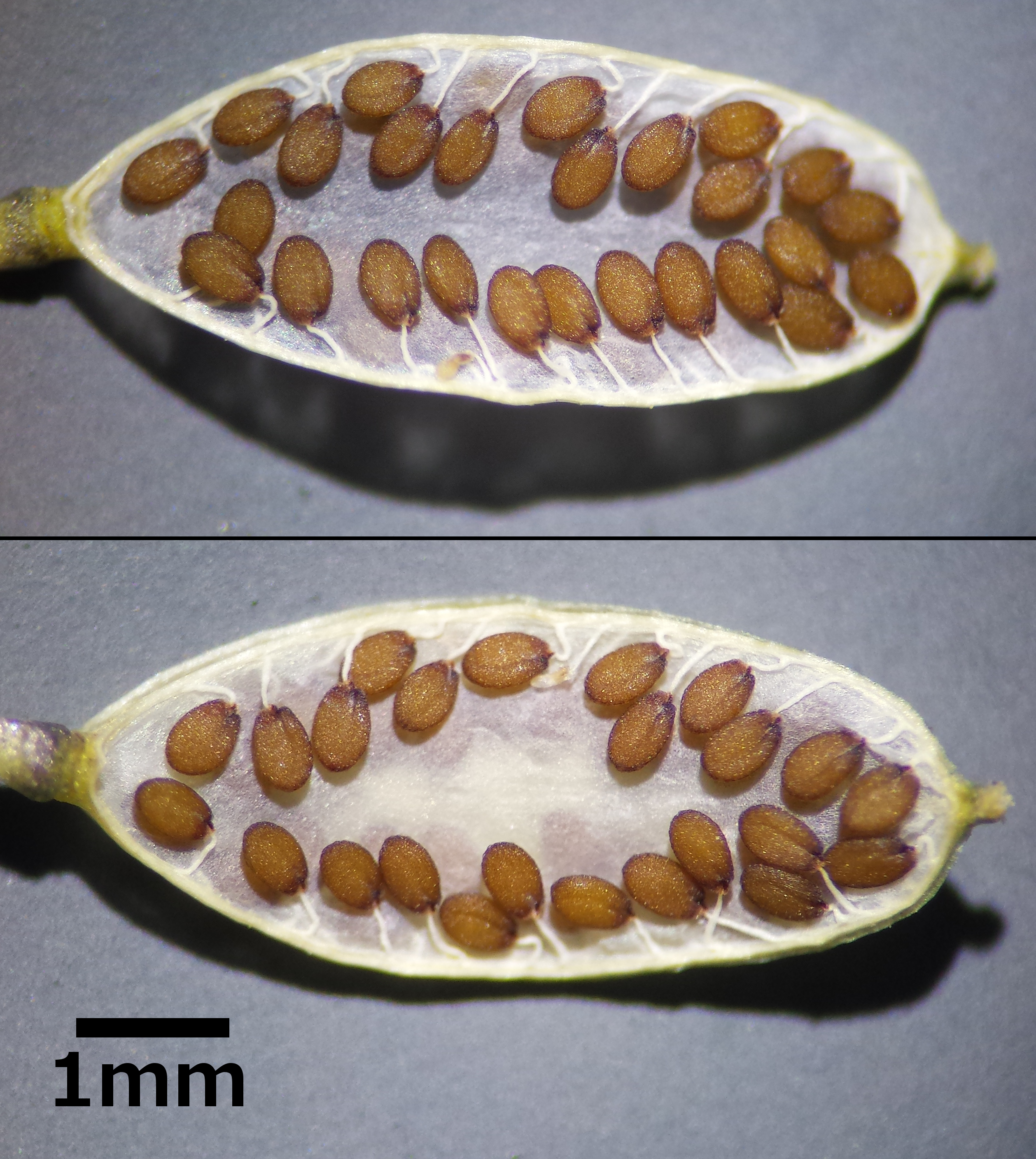 Open pods Taxon: Draba verna s. lat. (sensu Fischer et al. EfÖLS 2008 ISBN 978-3-85474-187-9 incl. addendum in Neilreichia 6) Location: rail station Floridsdorf, Vienna-Floridsdorf - ca. 160 m a.s.l. Habitat: ballast